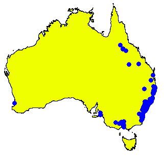 Angophora costata occurrence data downloaded from Australasian Virtual Herbarium using on 21 March 2019